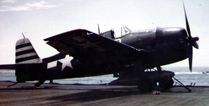 A U.S. Navy Grumman F6F-5 Hellcat of fighter squadron VF-12, Carrier Air Group 12 (CVG-12), painted in glossy sea blue scheme on the port catapult of the aircraft carrier USS Randolph (CV-15), March 1945. Note the "G-symbol" identification of Randolph´s air group on the tail.